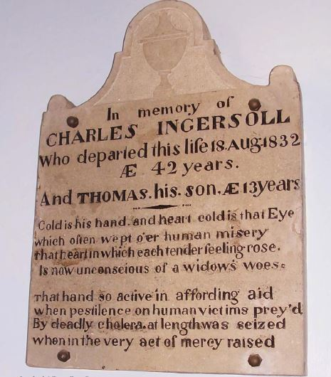 Ingersoll, Ontario